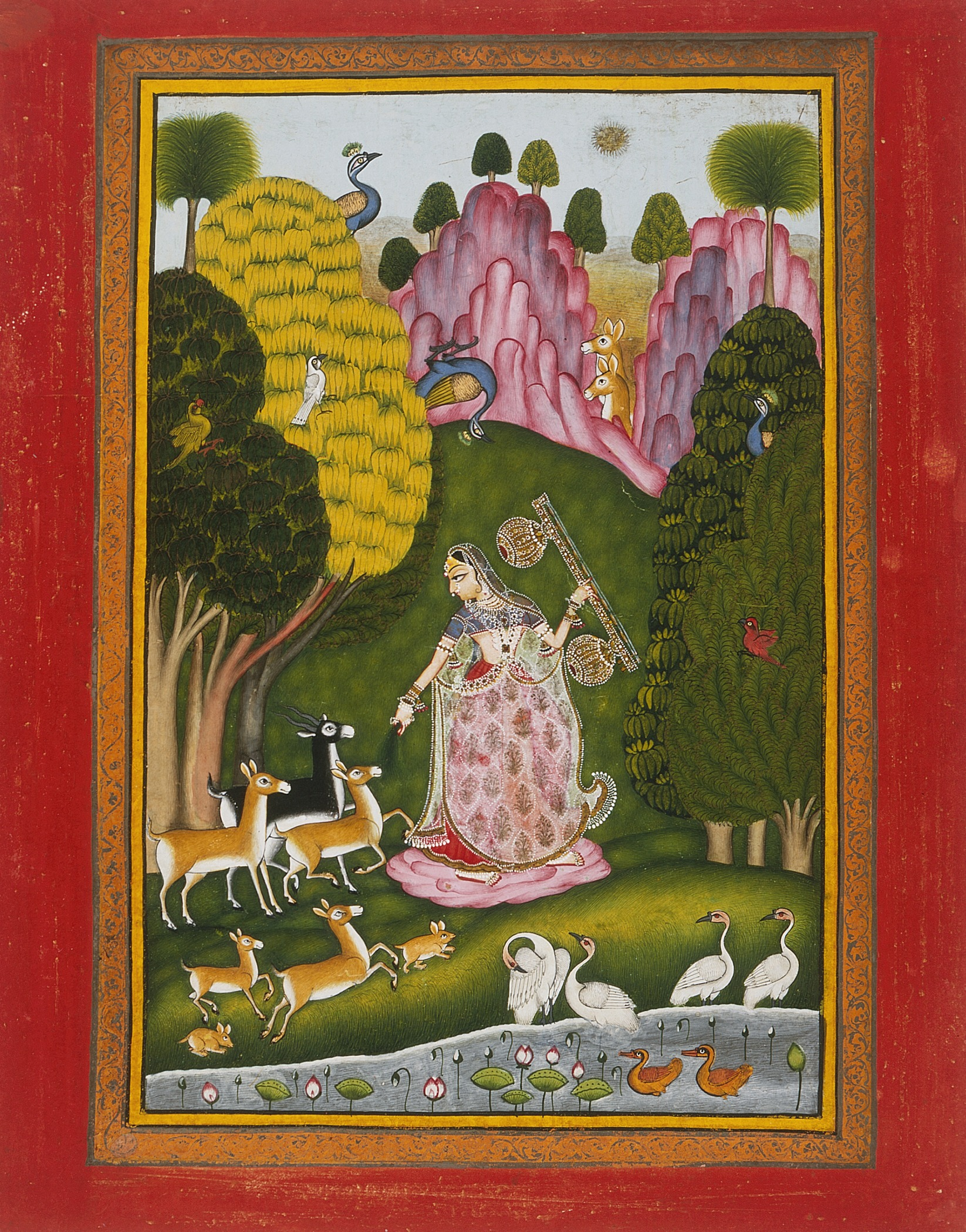 India, Raghugarh, circa 1775-1800 Drawings; watercolors Opaque watercolor and gold on paper Gift of William Theo Brown (M.77.130.1) South and Southeast Asian Art